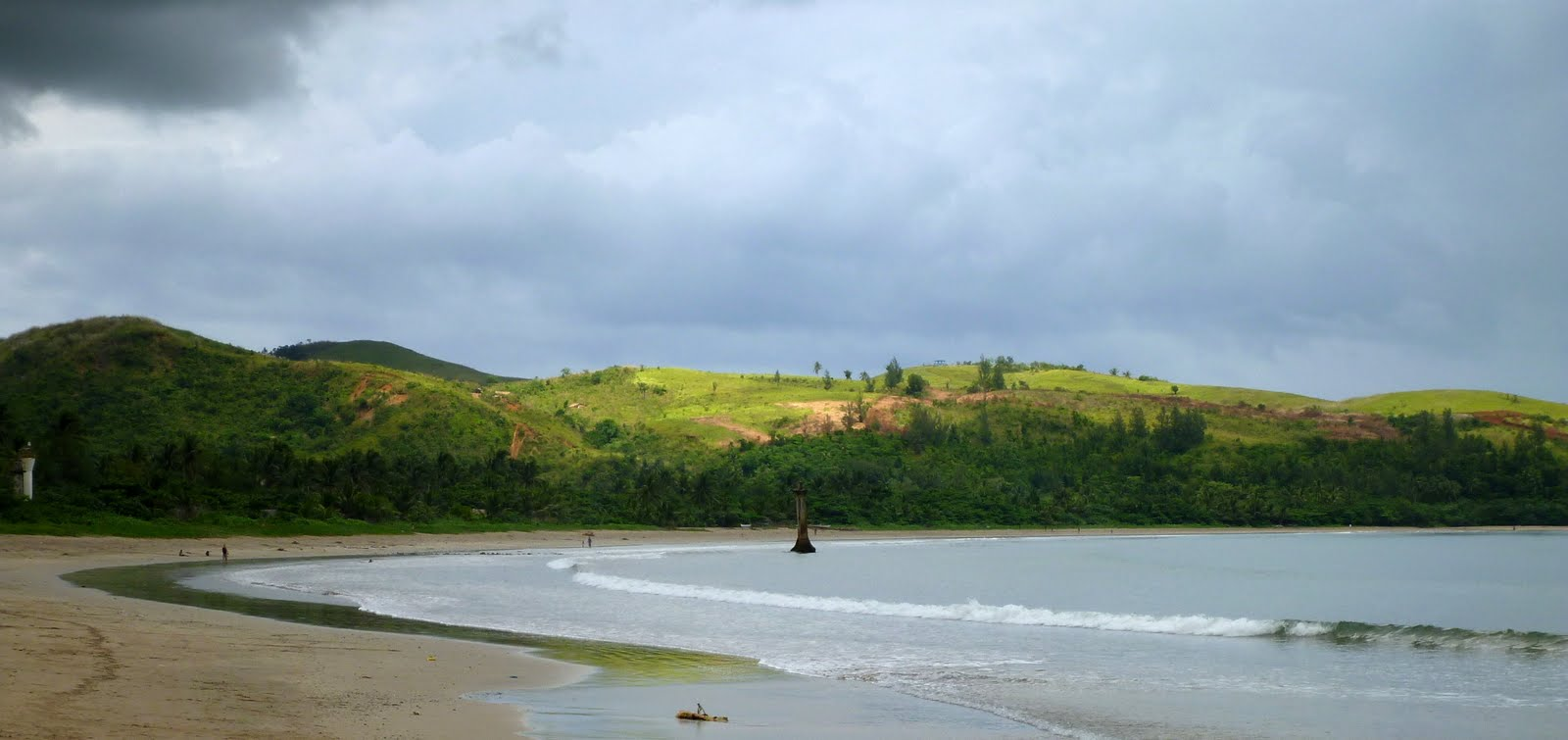 Paracale Port, Camarines Norte, Philippines